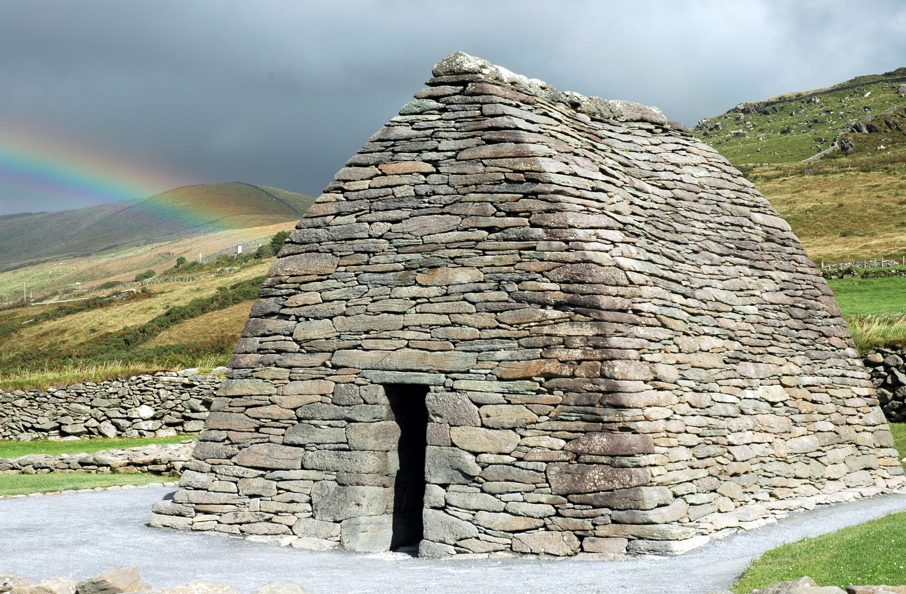 Gallarus Oratory, Dingle Peninsula, Co. Kerry, Ireland.